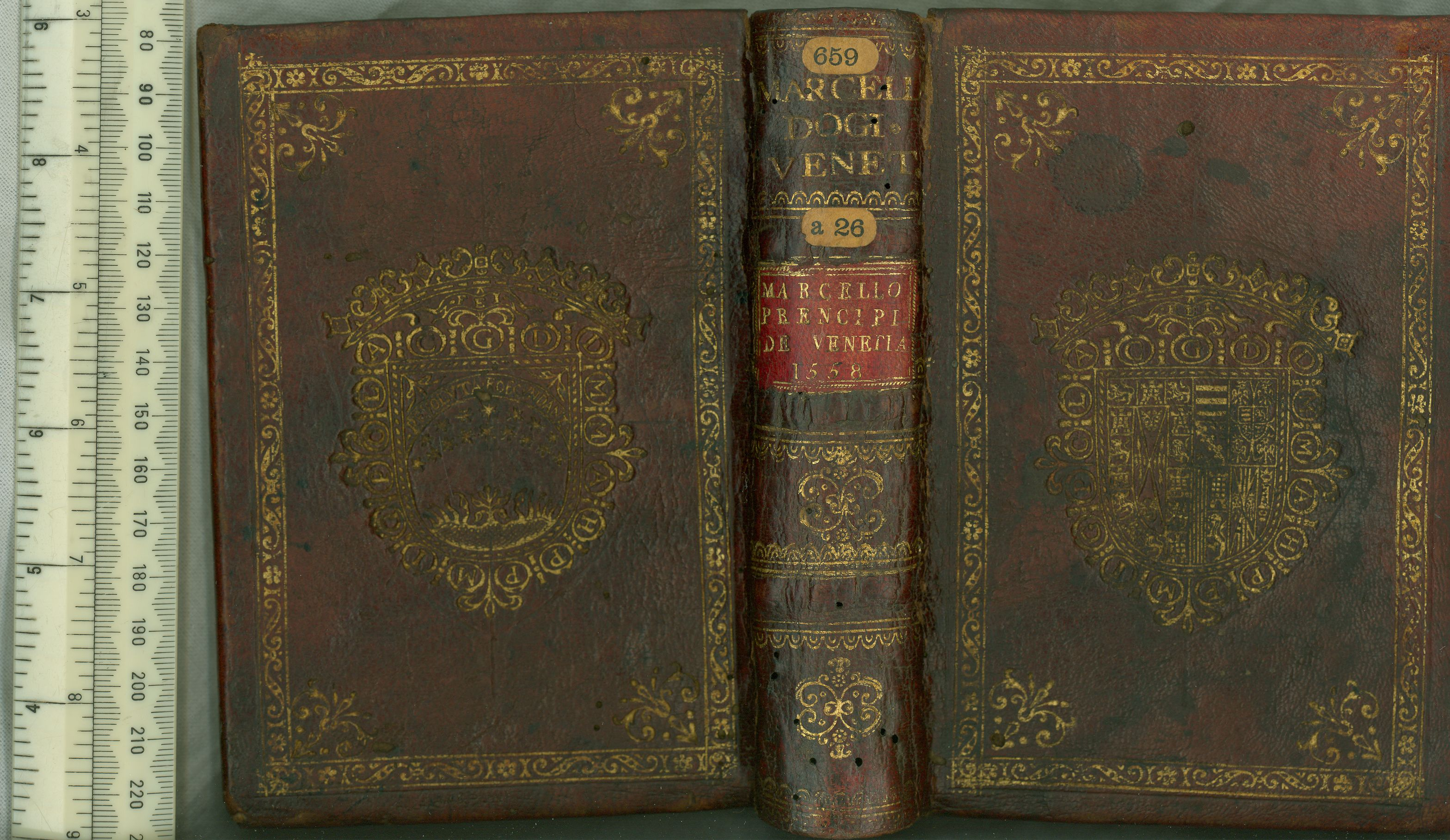 Style: Armorial|Panel design; Caption: Upper and lower cover and spine.; Colour: Red; Edge: Gilt